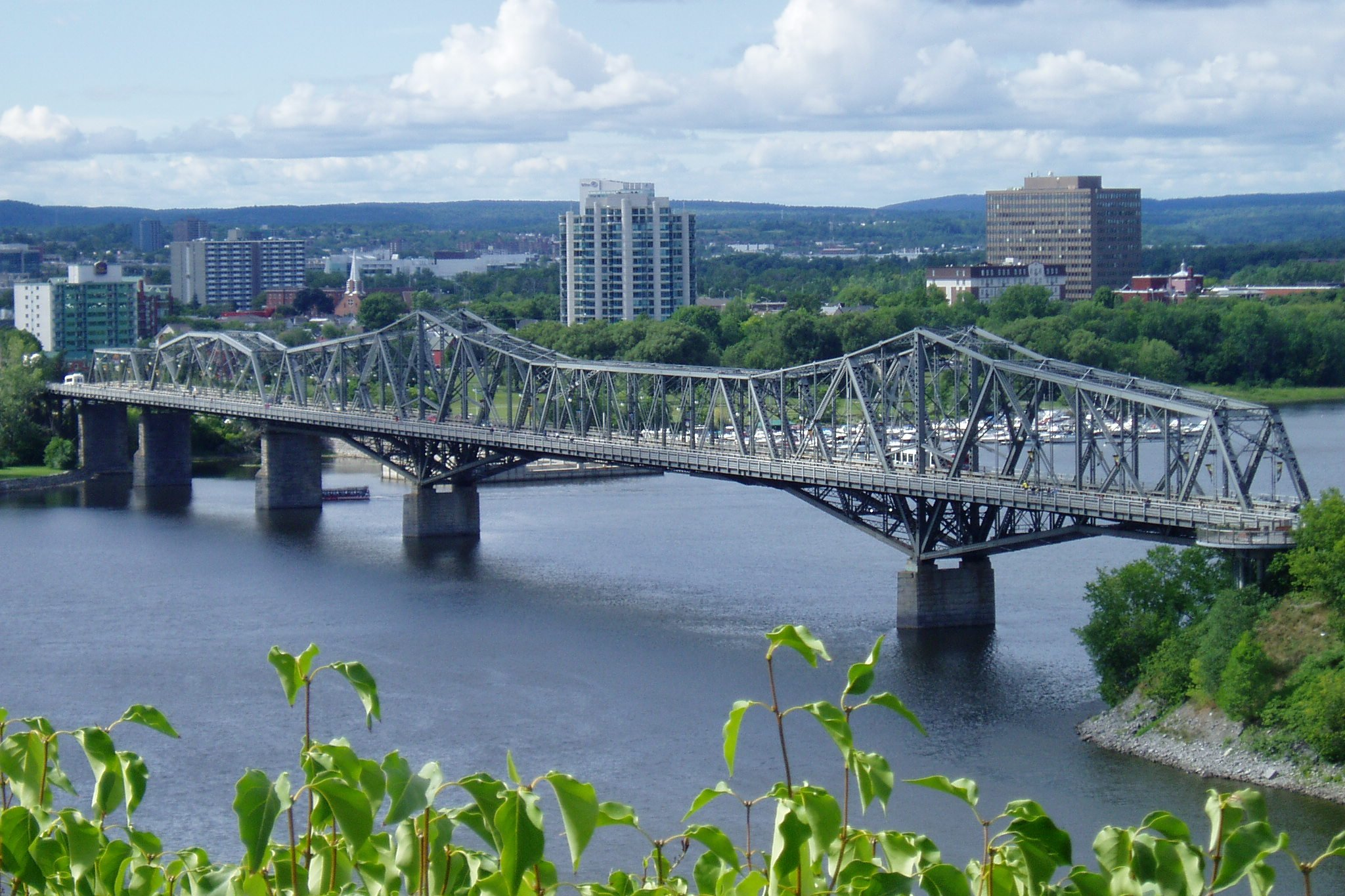 The Alexandra Bridge in Ottawa, taken by SimonP